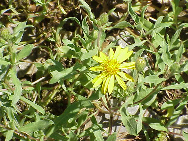 Species: Chrysopsis villosa ruteri Family: Compositae Image No. 2